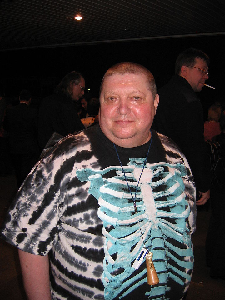 Mikhail Uspenskiy, Russian writer